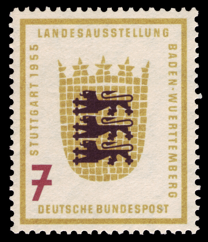 Exhibition of Baden-Württemberg Graphics by Bentele Ausgabepreis: 7 Pfennig First Day of Issue / Erstausgabetag: 15. Juni 1955 Michel-Katalog-Nr: 212